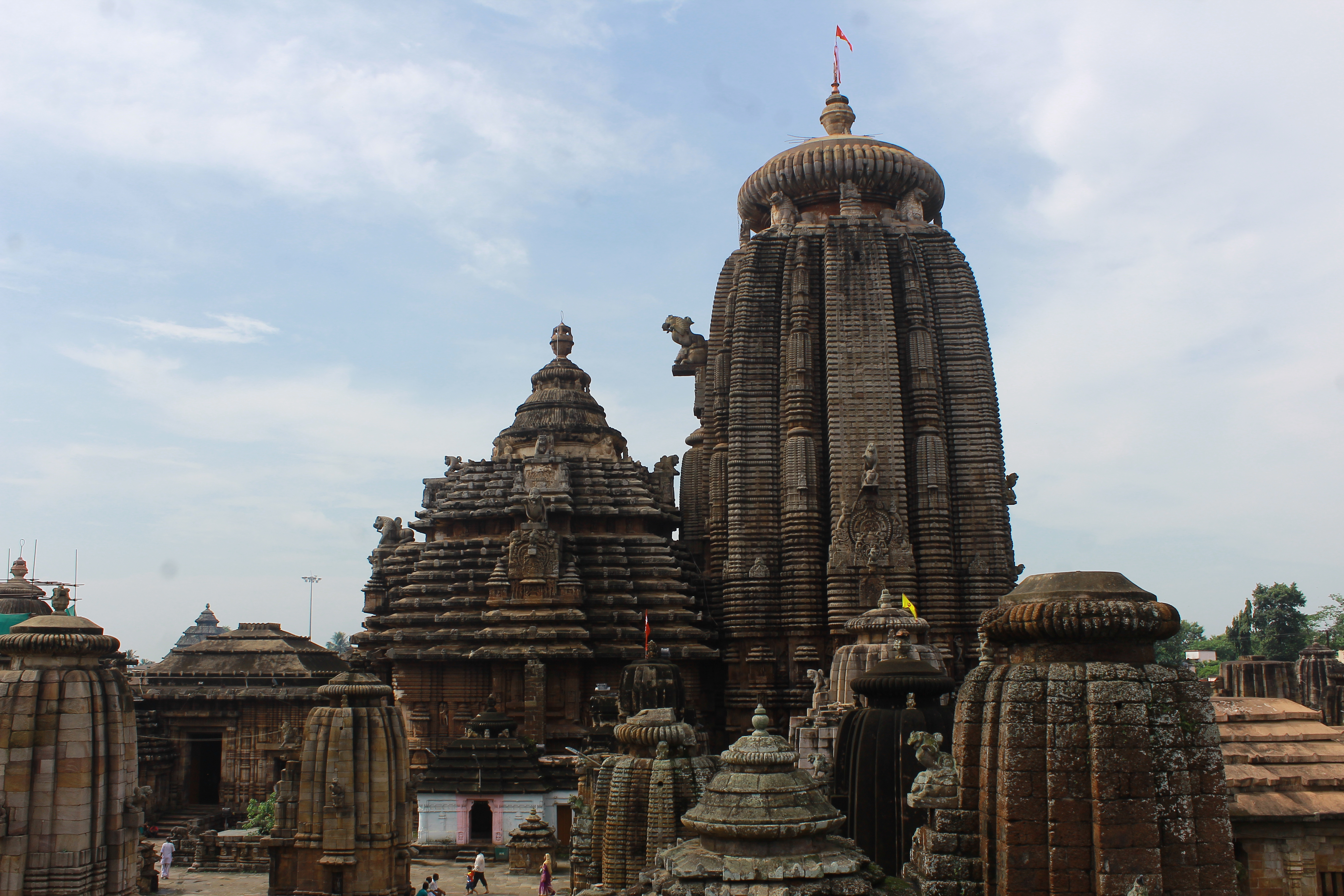 Beauty of LingrajTemple of Monuments...